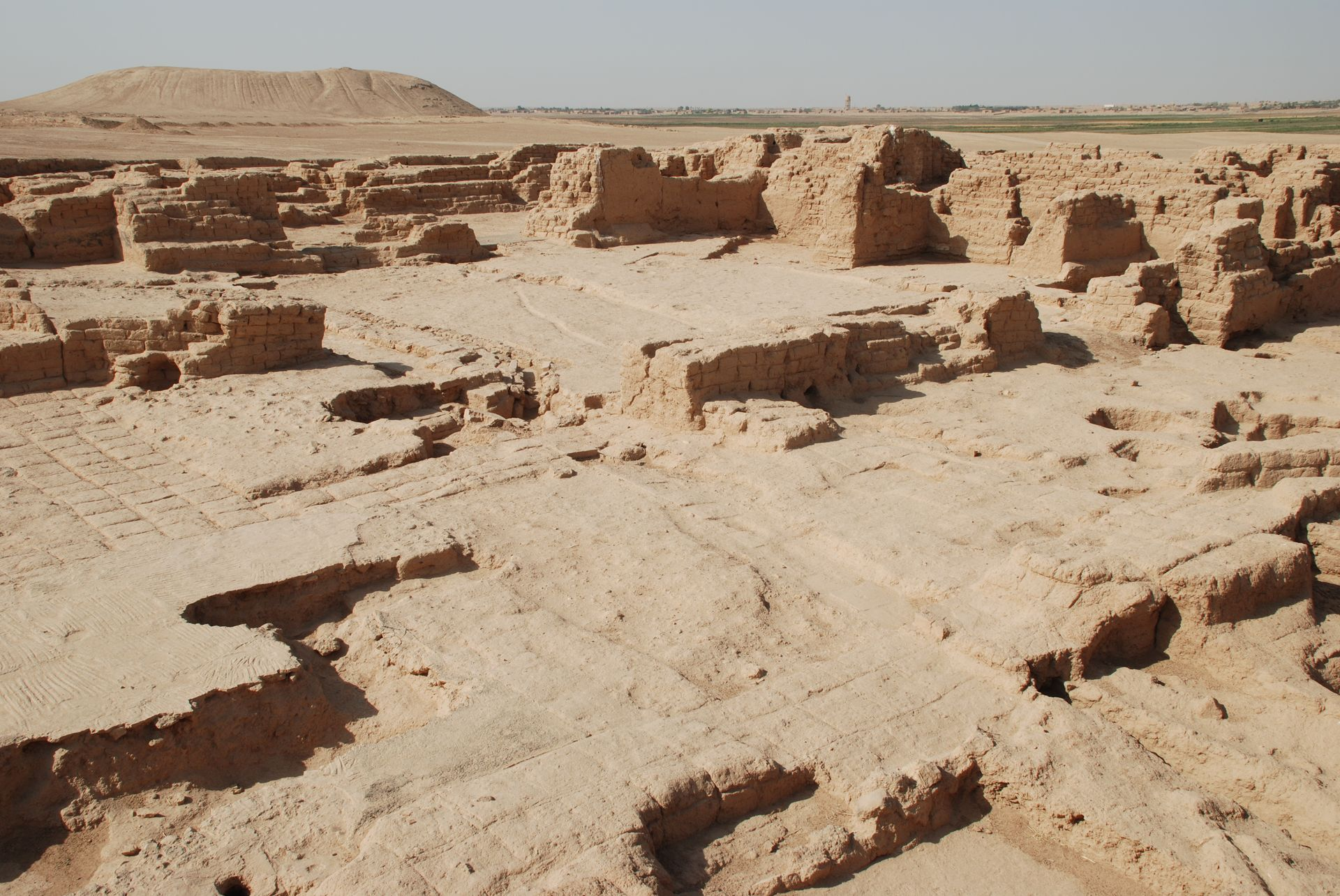 Tell Schech Hamad, Syria, Dur Katlimmu, neo-assyrian residences in lower town II